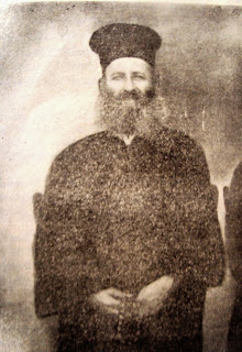 Greek priest Perikles Papayannopoulos, killed by monarchists in 1946